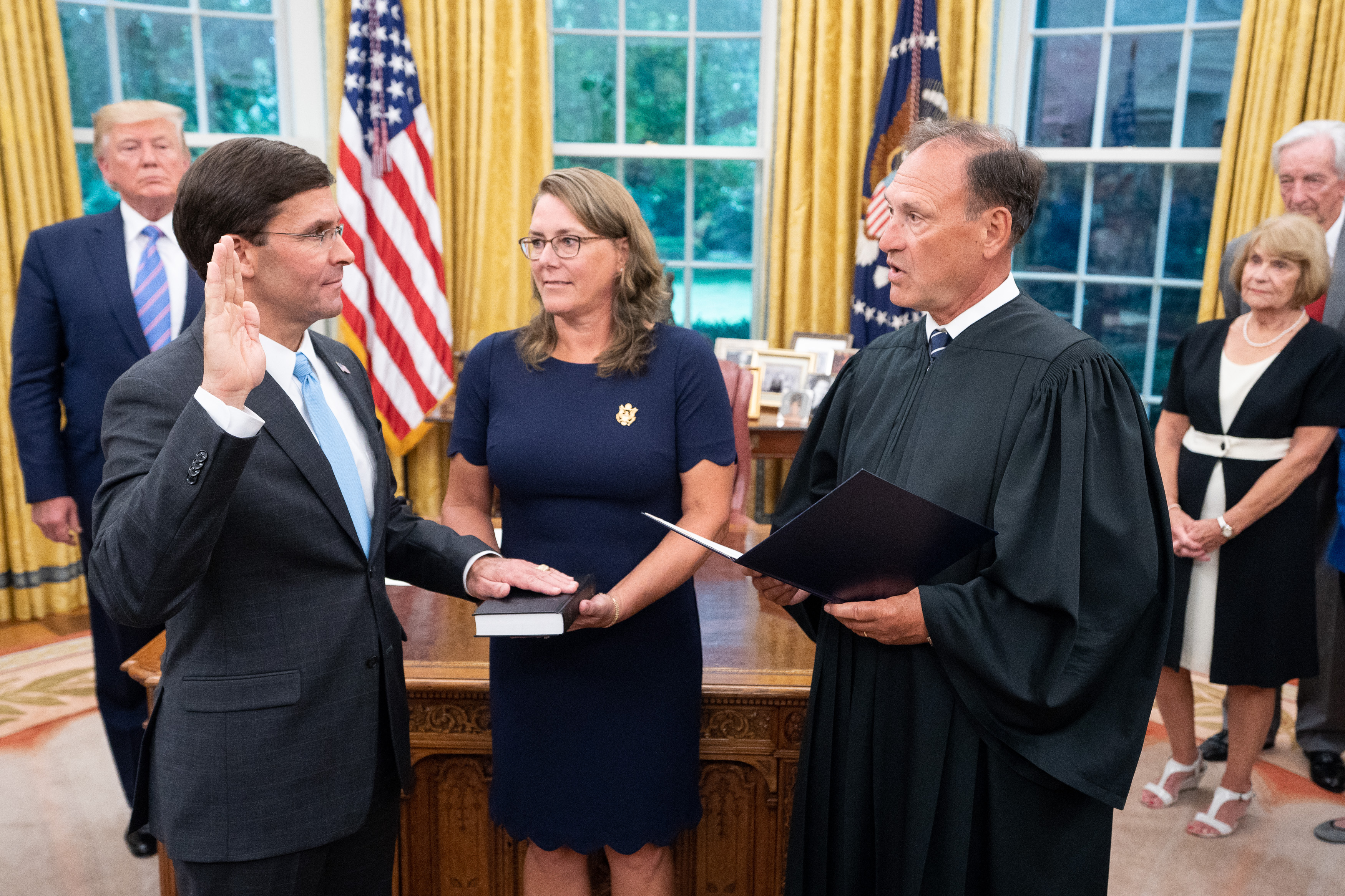 President Donald J. Trump watches as U.S. Supreme Court Associate Justice Samuel Alito swears-in new Secretary of Defense Mark Esper Tuesday, July 23, 2019, in the Oval Office of the White House. (Official White House Photo by Shealah Craighead)